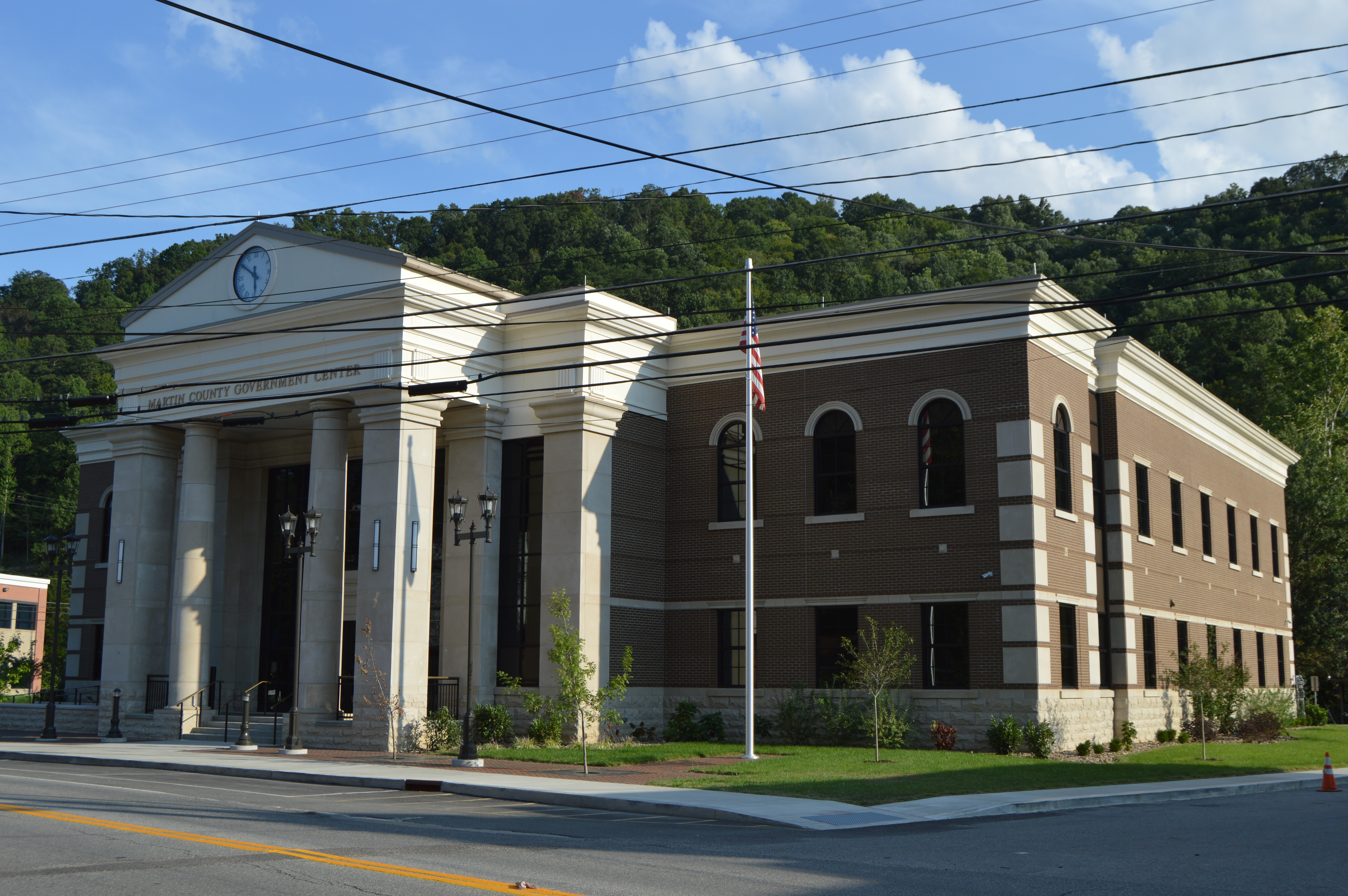 Front and western side of the Martin County Government Center, located on Main Street (Kentucky Route 40) in central Inez, Kentucky, United States. It was built in 2016.